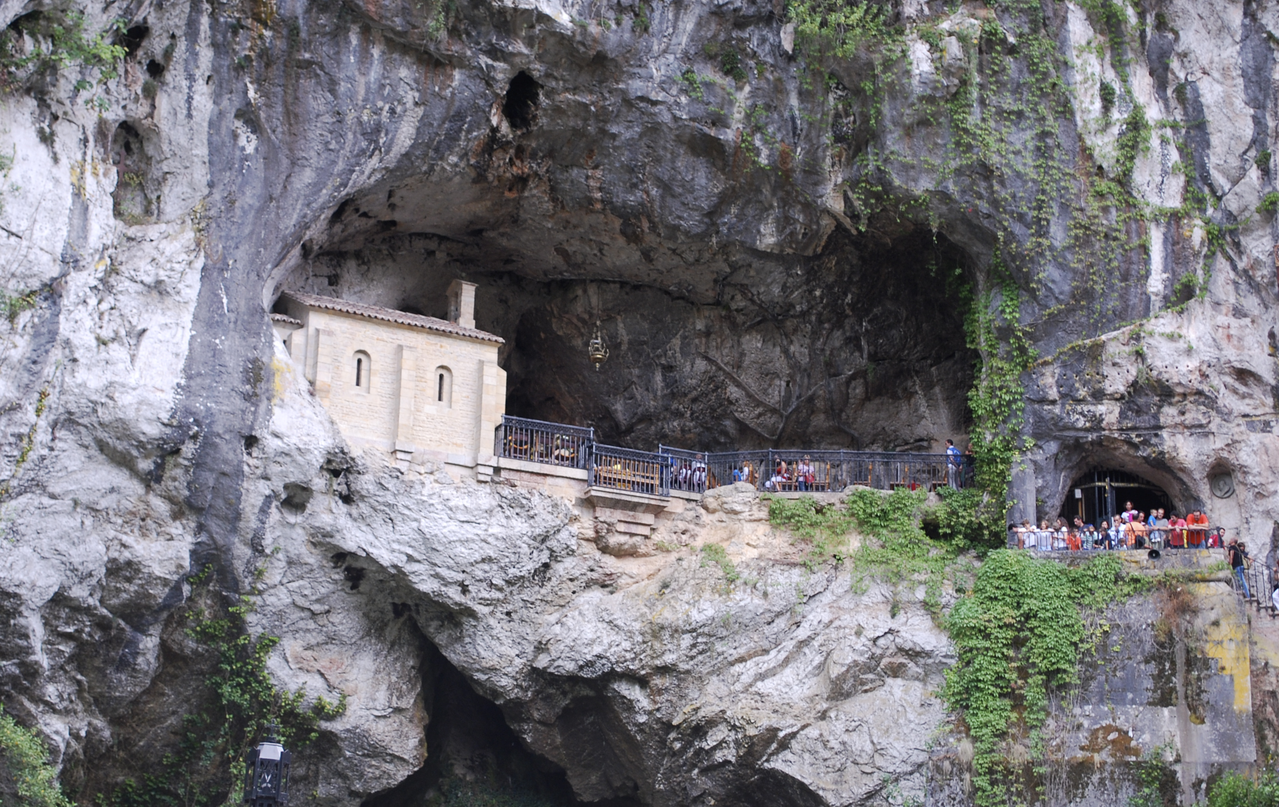 This is a photo taken in Covadonga, Spain, among the Picos de Europa in the province of Asturias. The cave in the center of the frame is the Holy Cave, dedicated to the Virgin Mary.